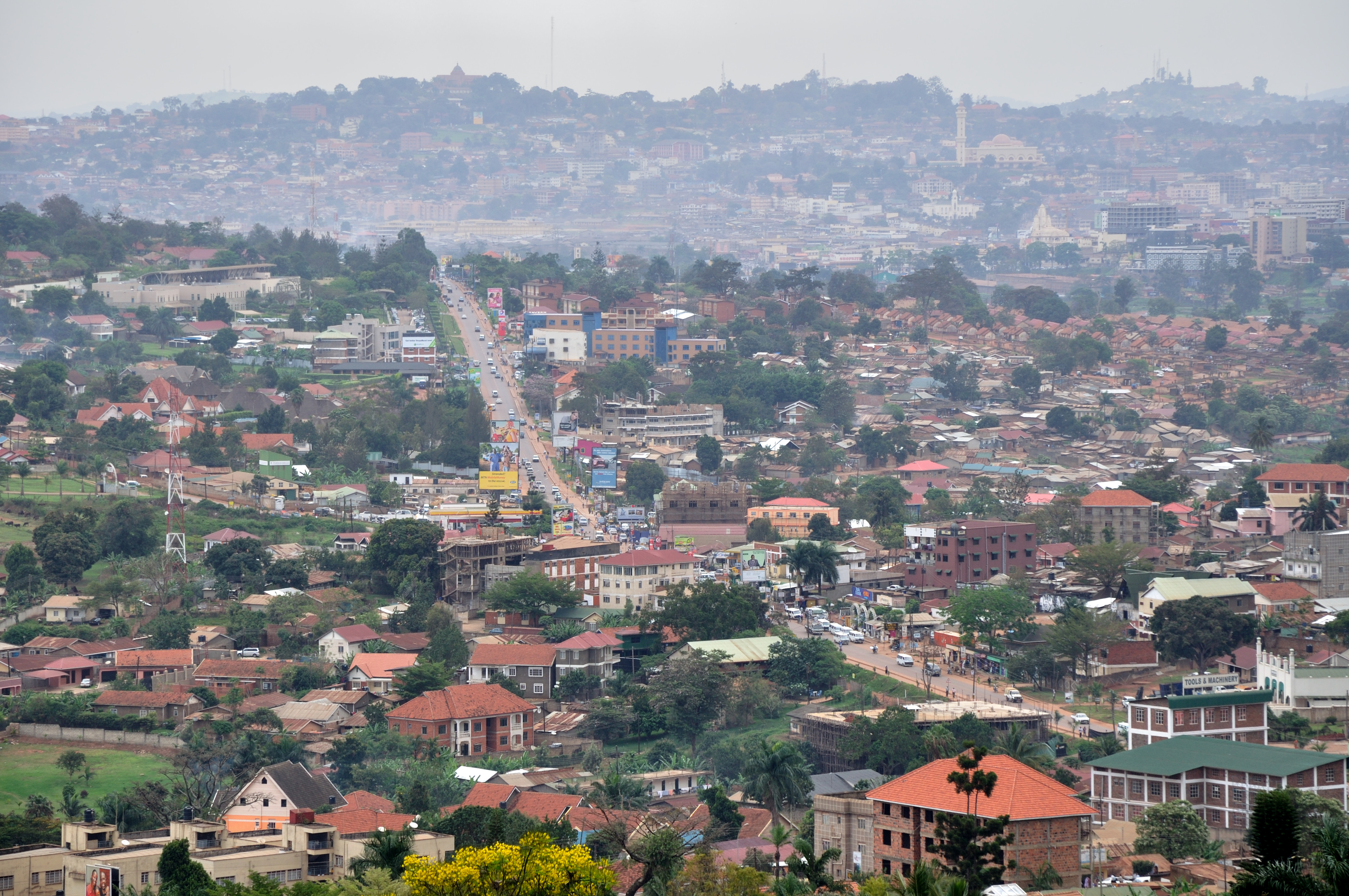 Uganda, View over the city